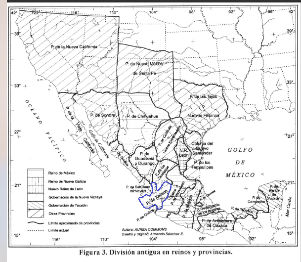 Cartografía de las divisiones territoriales de México, 1519-2000 de Áurea Commons